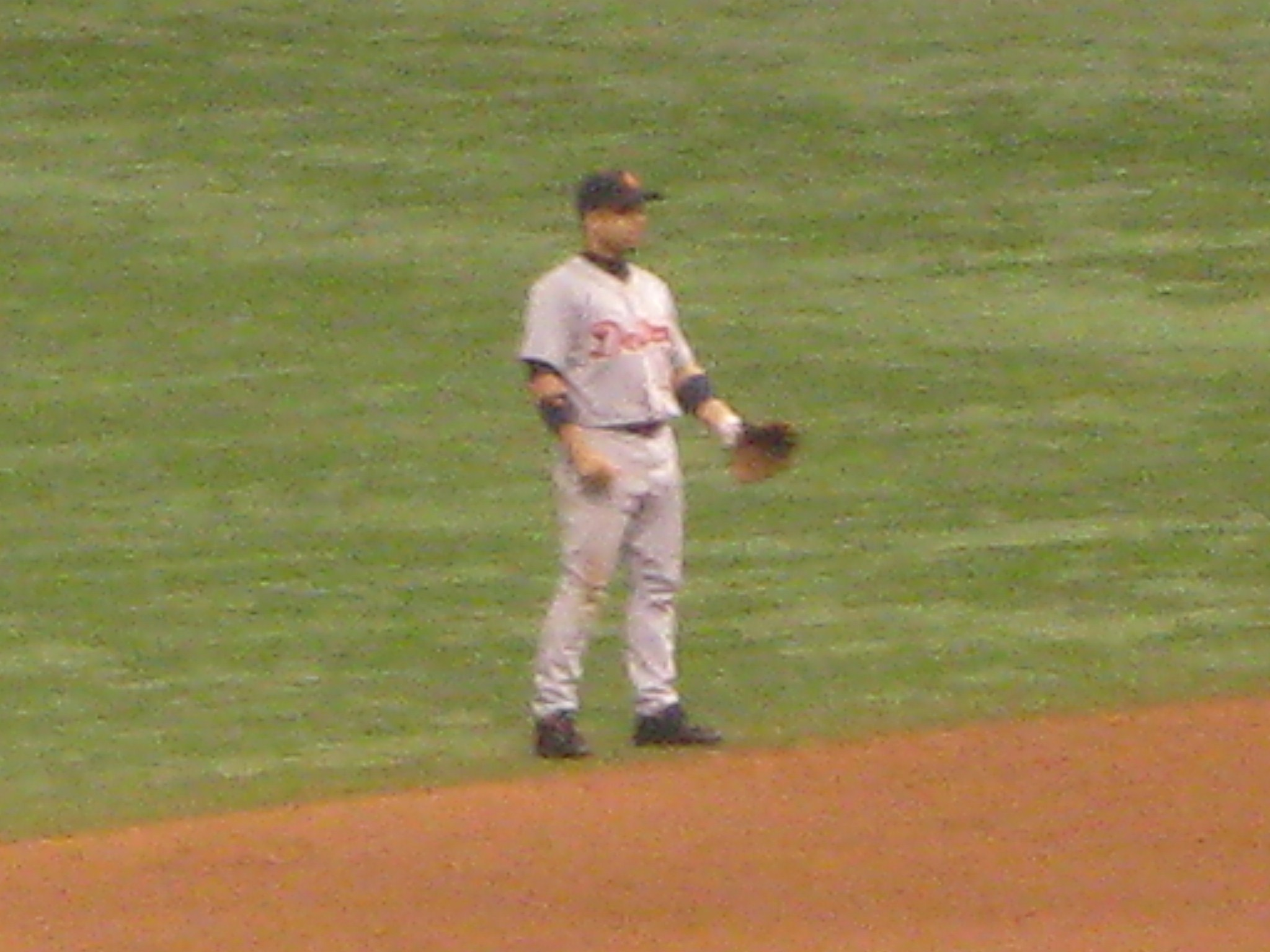 Description Placido Polanco DateAug 3, 2008SourceI created this work entirely by myself.AuthorRHMI (talk) 03:51, 4 August 2008 . . RHMI . . 2,048×1,536 (332 KB) Placido Polanco